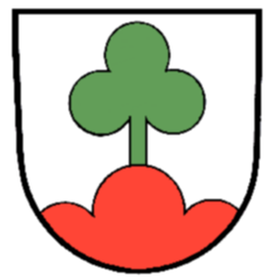 Coat of arms of Hilzingen